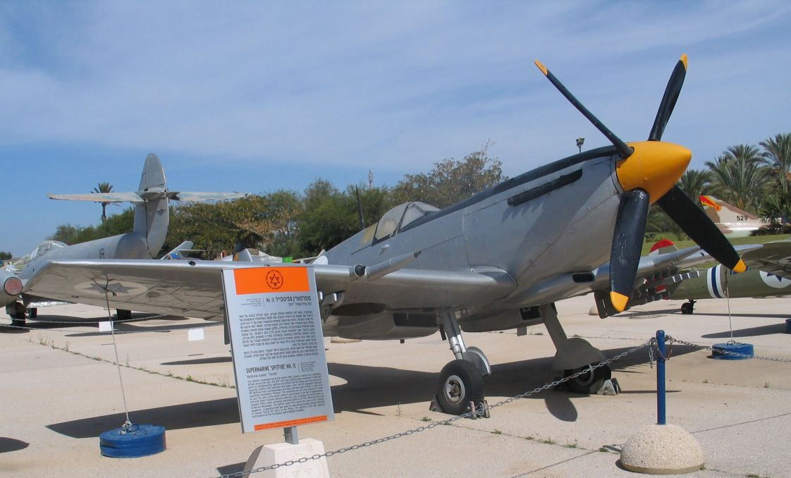 Description: Supermarine Spitfire Mk IX at Muzeyon Heyl ha-Avir, Hatzerim airbase, Israel. 2006. Source: Photo by me, User:Bukvoed.